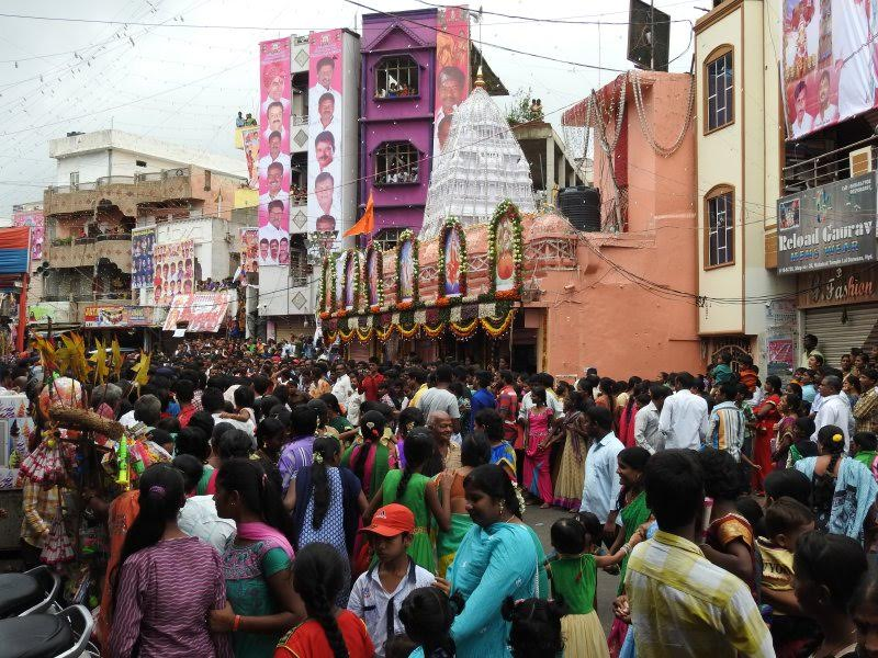 lal darwaza bonala pandaga Hyderabad